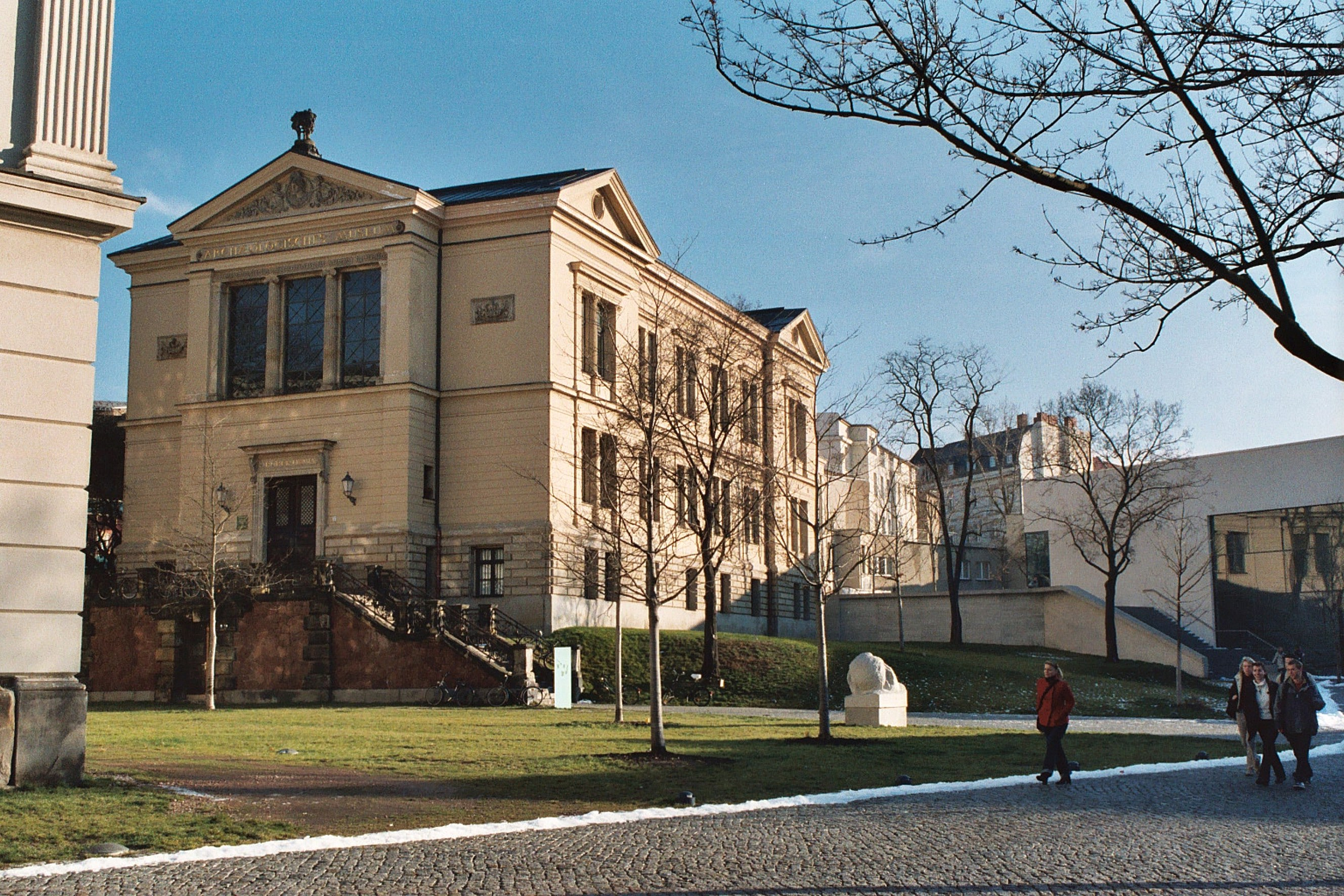 Halle (Saale), Archaeological Museum Robertinum of the University